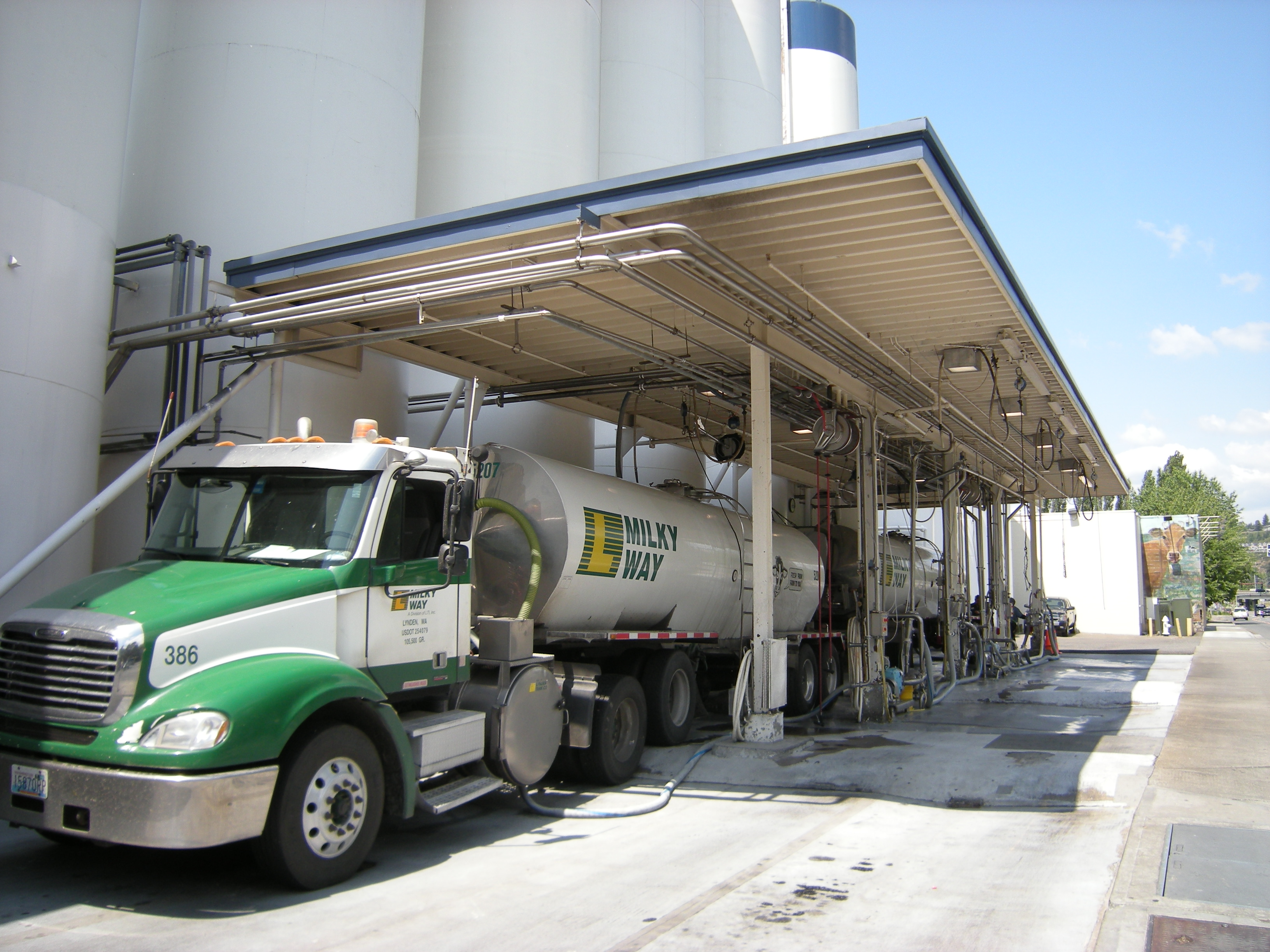 Darigold dairy, Issaquah, Washington.